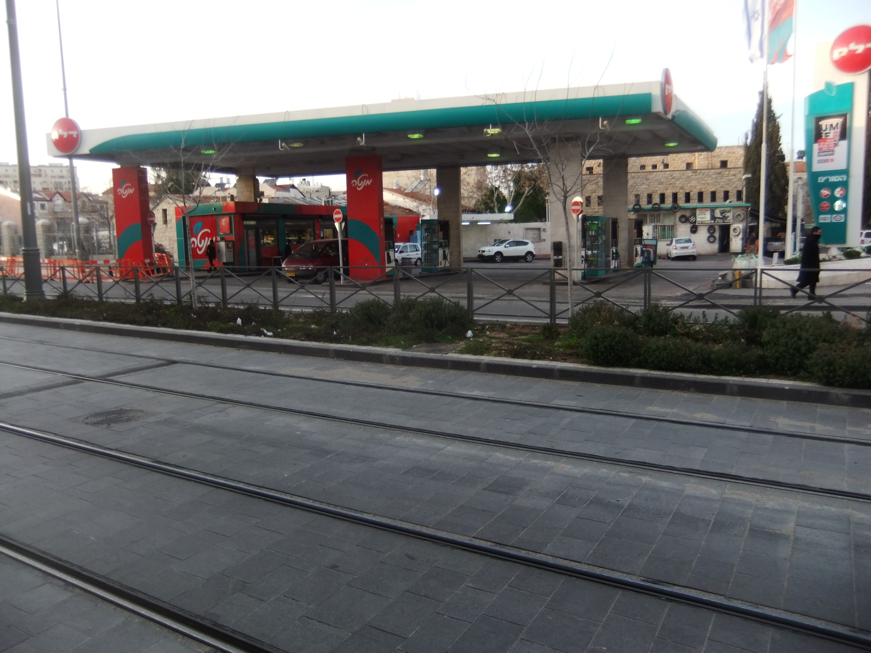 Petrol stations on Jaffa road